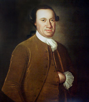 Portrait of John Hanson, President of the Continental Congress, circa 1770